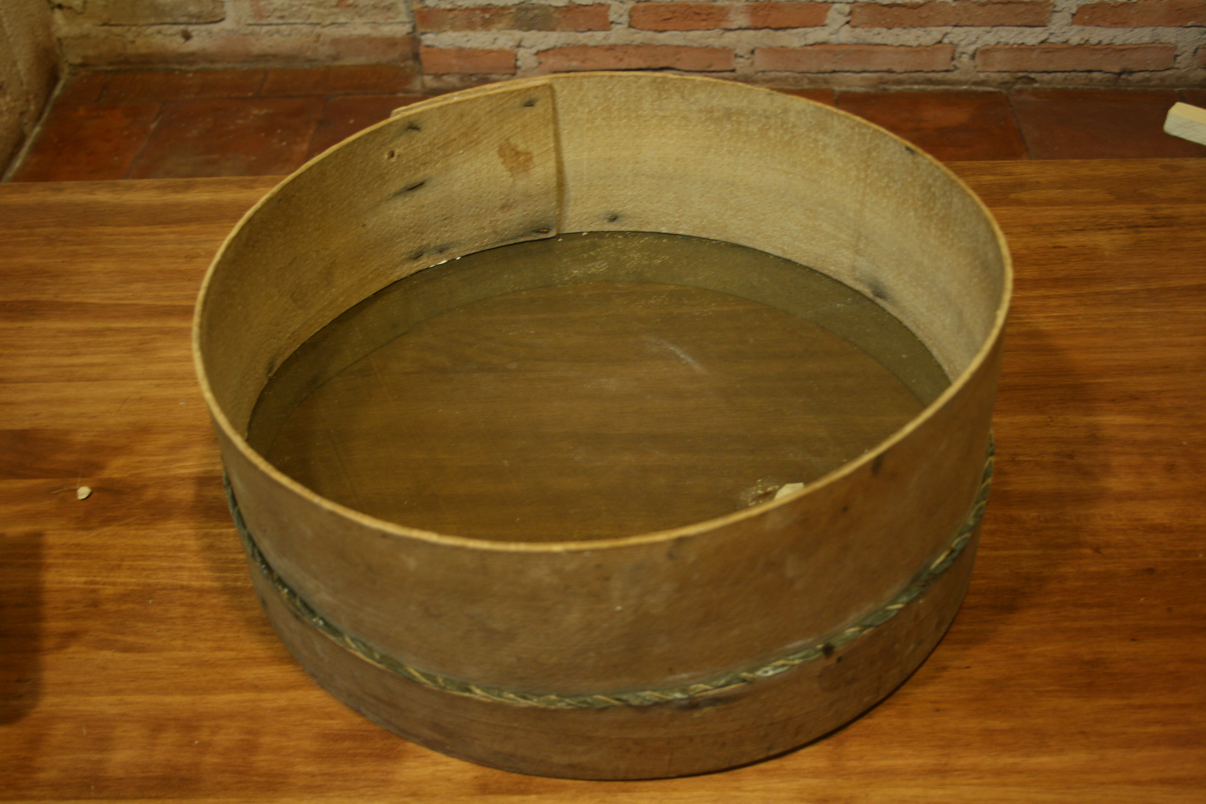 Flour